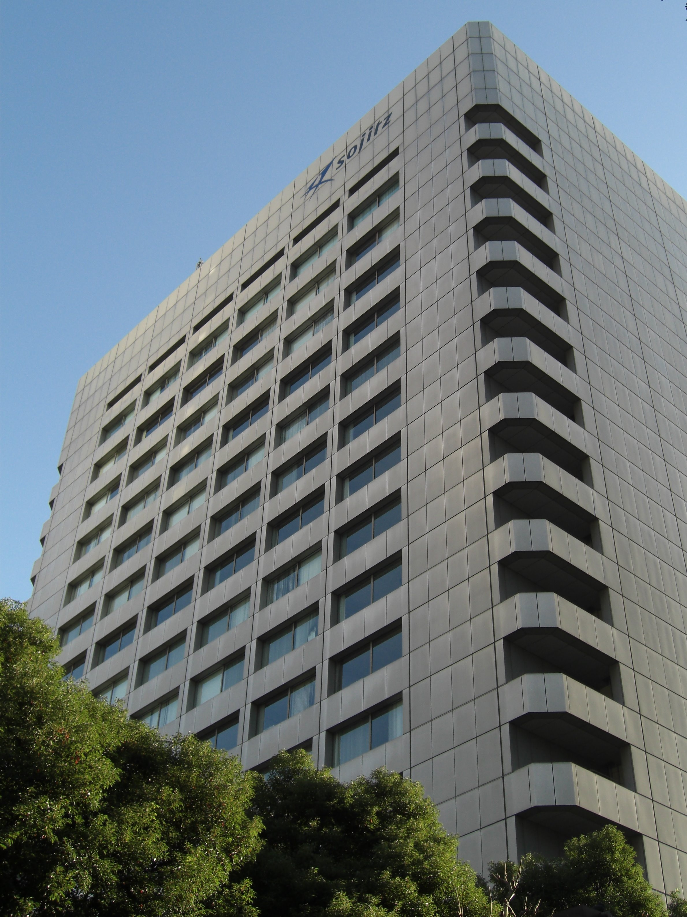 Sojitz Corporation head office KOKUSAI SHIN-AKASAKA BUILDING(1-20,Akasaka 6-chome,minato-ku,Tokyo,Japan)